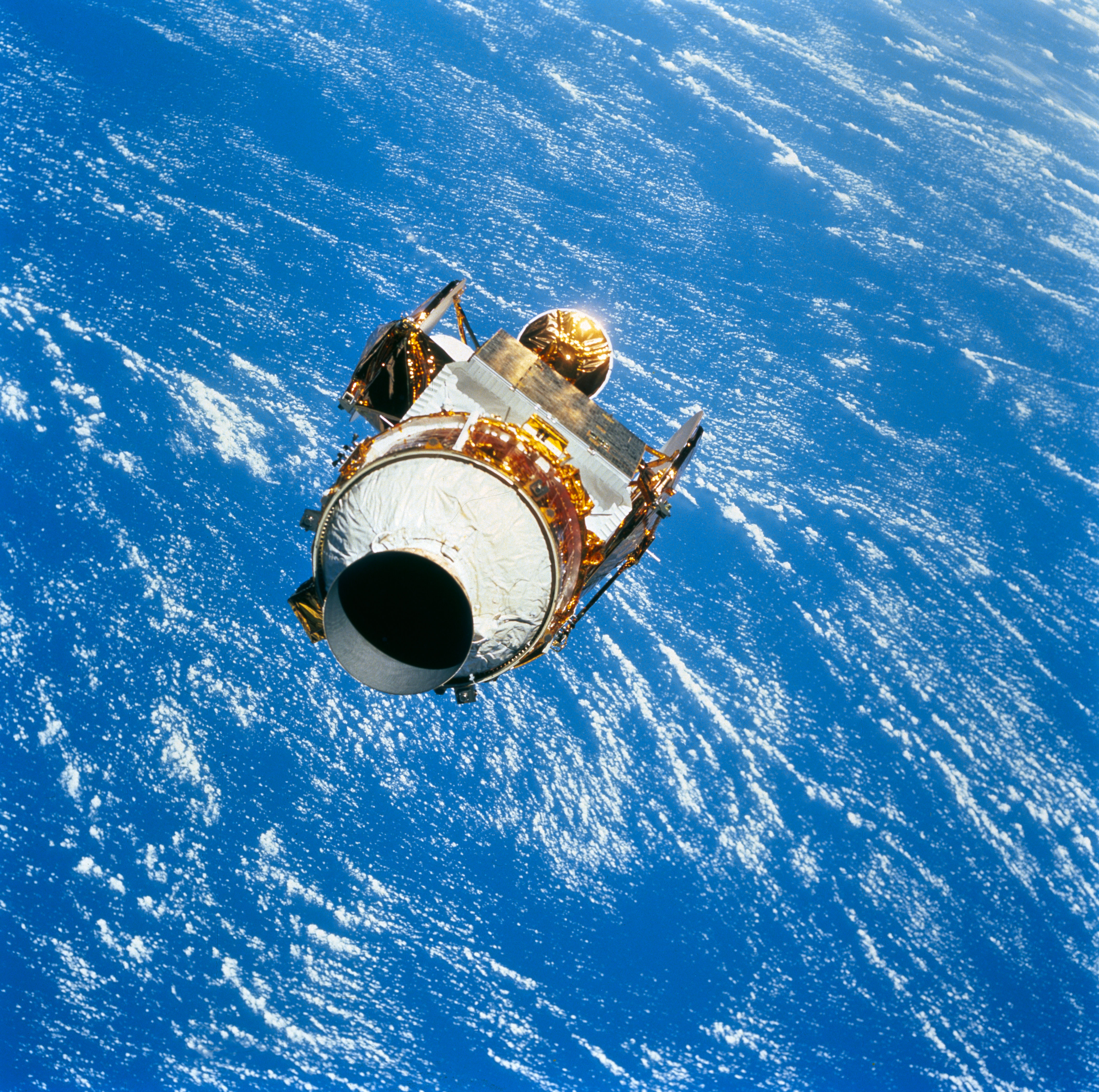 The Advanced Communications technology Satellite (ACTS) moves away from the space shuttle Discovery after deployment on mission STS-51.